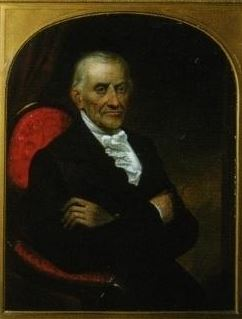 Portrait of Joseph Campau (1769-1863), Merchant